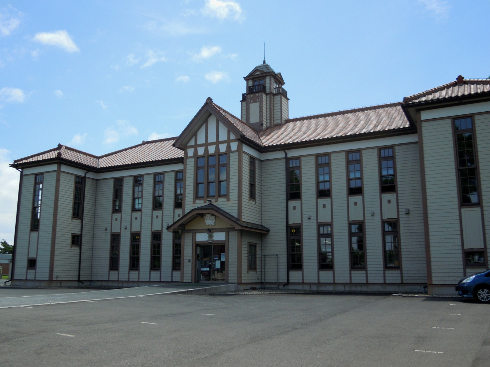 The Oshu Space & Astronomy Museum, Oshu city, Iwate prefecture, Japan